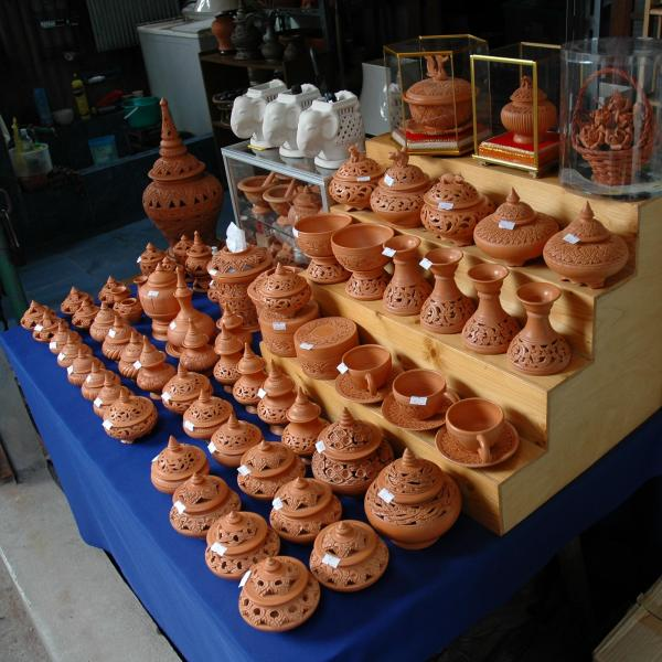 Pottery, Ko Kret, Thailand.